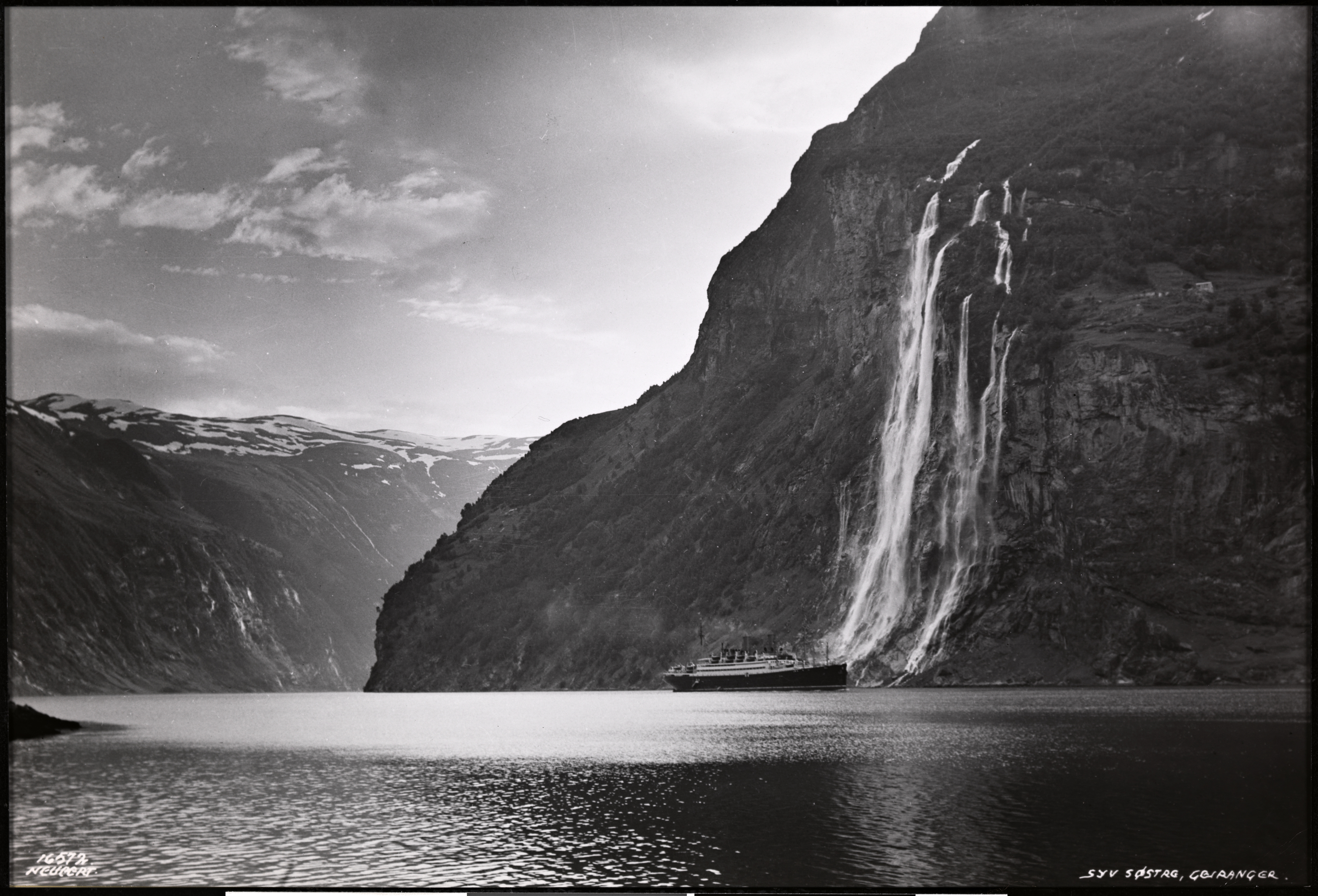 Dato / Date: ukjent / unknown Sted / Place: Møre og Romsdal, Stranda, Geiranger, Syv Søstre Fotograf / Photographer: Hermann C. Neupert (1875-1941) Digital kopi av original / Digital copy of original: s/h papirpositiv Eier / Owner Institution: Nasjonalbiblioteket / National Library of Norway Lenke / Link: Bildesignatur / Image Number: bldsa_FA0168